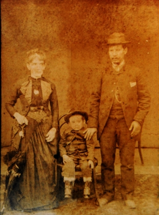 Es una foto histórica para los Camireños